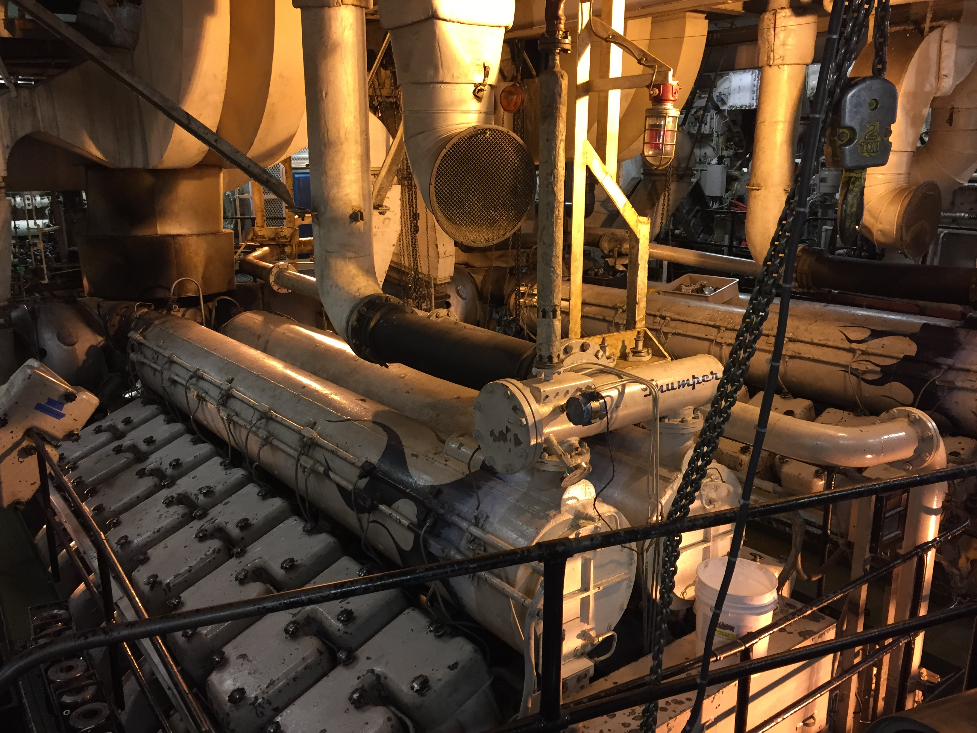 The engine room of the Training Ship Golden Bear where future marine engineers train.